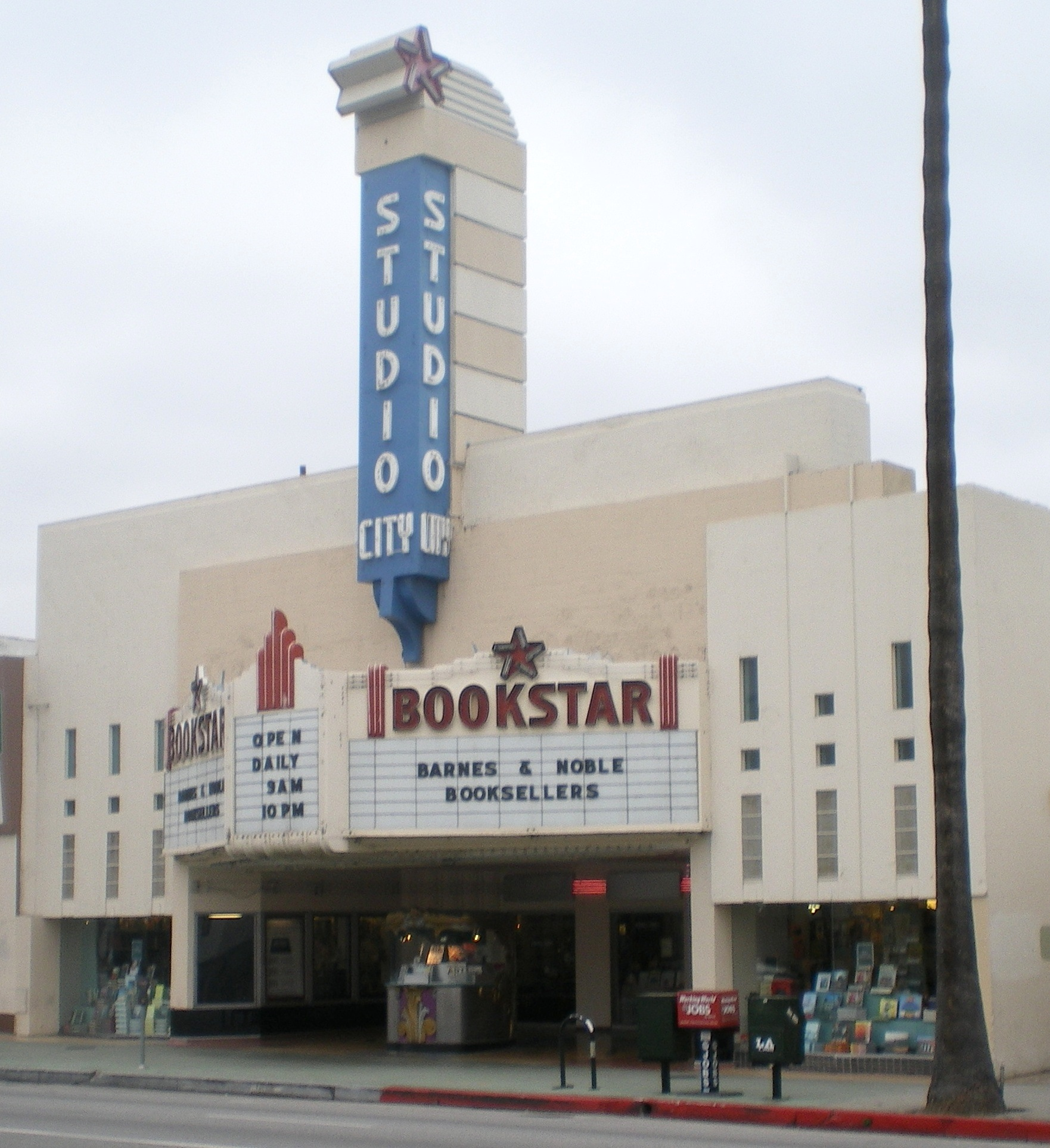 The Studio City Theater cinema on Ventura Boulevard in Studio City — converted into book store.